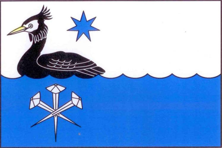 Municipal flag of Kotenčice village, Příbram District, Czech Republic.